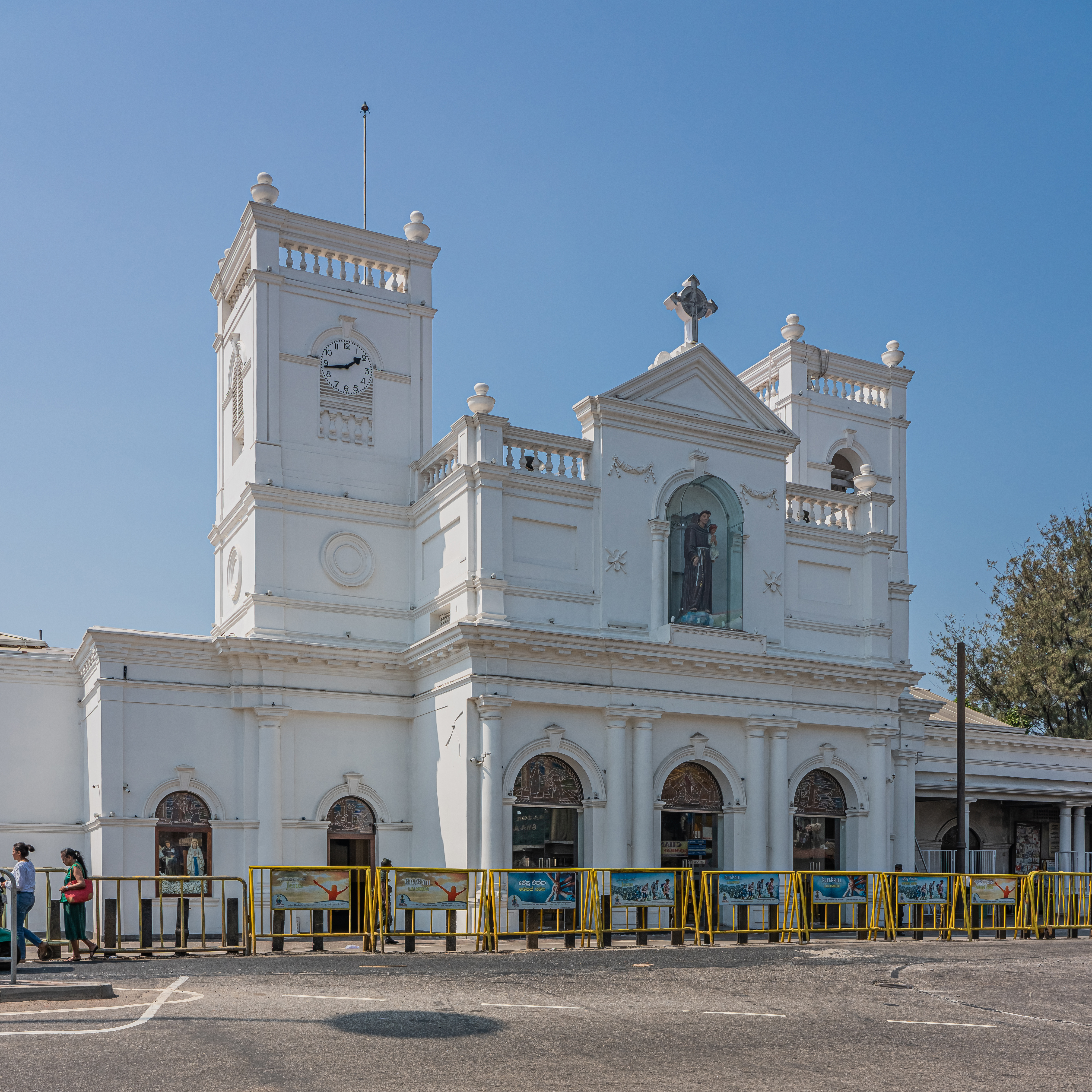 Roman Catholic St. Anthony Church in Colombo, Sri Lanka